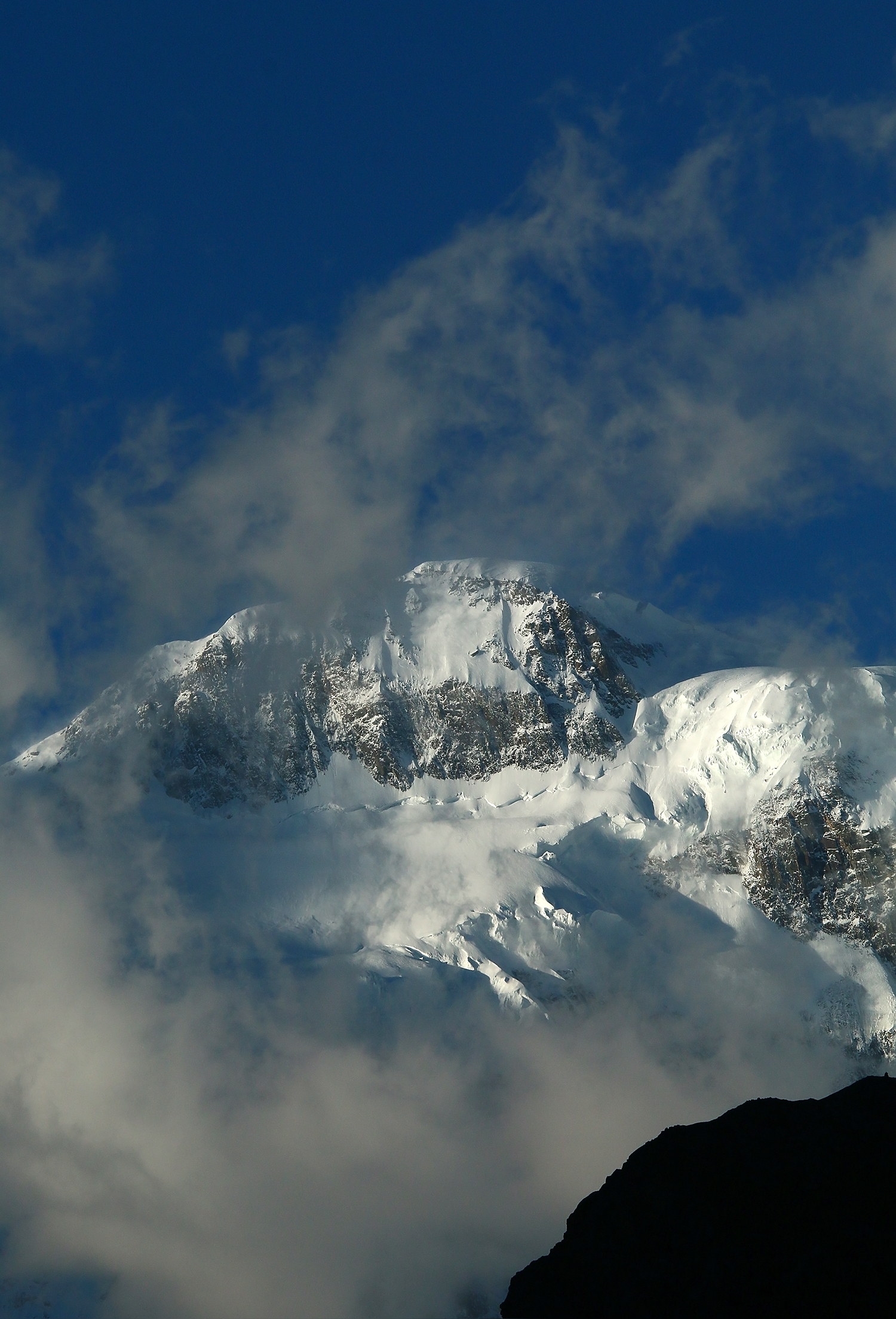 Passu Sar (7478 m) south face from Gutum Talji